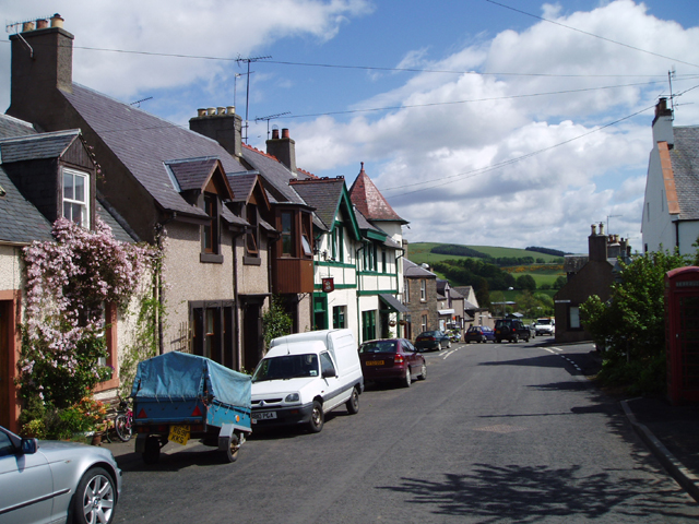 Oxton